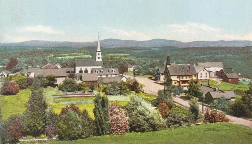 General view of Dublin, New Hampshire. This shows the town center from the west.